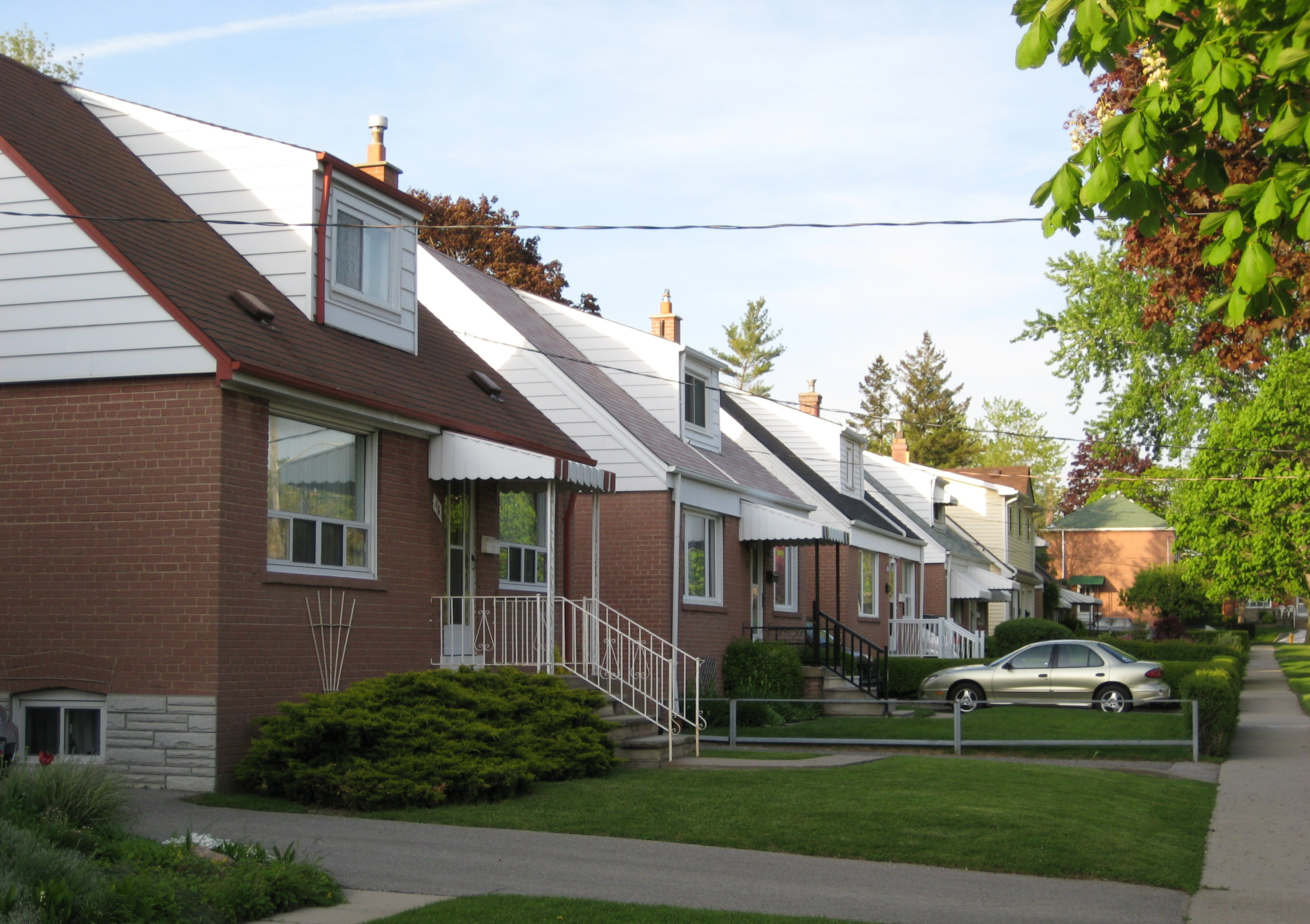 Clairlea